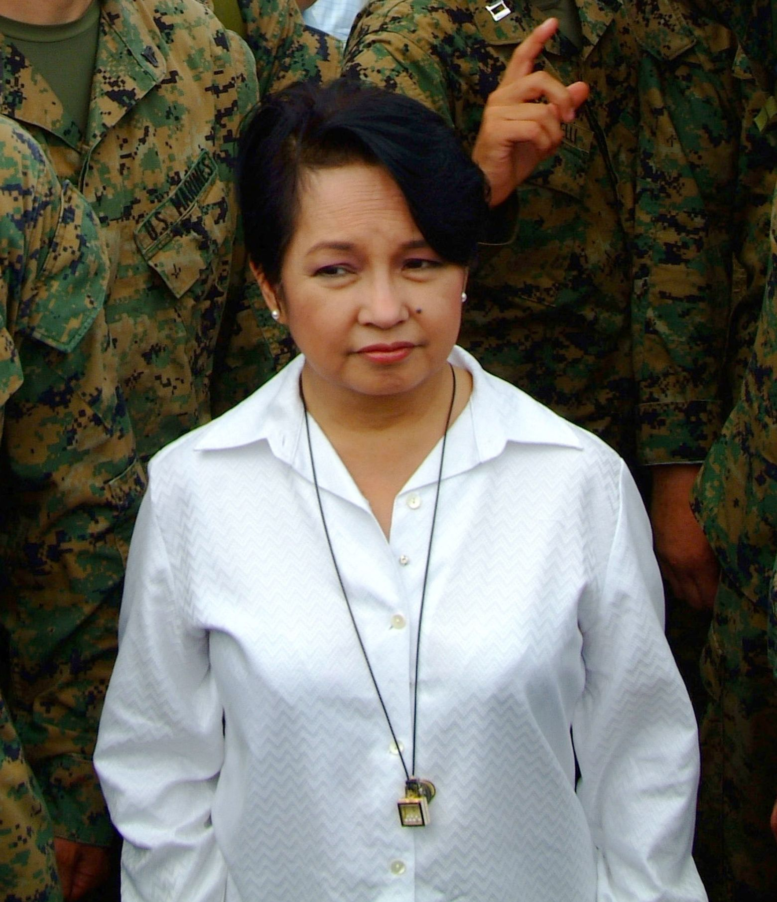 Cropped photo of president Gloria Macapagal Arroyo; Philippine President Gloria Macapagal Arroyo meets with Commanding Officer, 31st Marine Expeditionary Unit (MEU) Col. Walter L. Miller near the site of a devastating landslide; Guinsahugon Village, Republic of the Philippines (Feb. 22, 2006) - Philippine President Gloria Macapagal Arroyo meets with Commanding Officer, 31st Marine Expeditionary Unit (MEU) Col. Walter L. Miller near the site of a devastating landslide that struck southern Leyte on Feb. 17, 2006. Sailors and Marines from the Forward Deployed Amphibious Ready Group (ARG) with elements of the 31st Marine Expeditionary Unit (MEU), Joint Task Force (JTF) Balikatan and the USS Curtis Wilbur (DDG 54) arrived off the coast of Leyte Feb. 19 to provide humanitarian assistance and disaster relief to the victims of the area. U.S. Navy photo by Journalist 2nd Class Brian P. Biller (RELEASED)